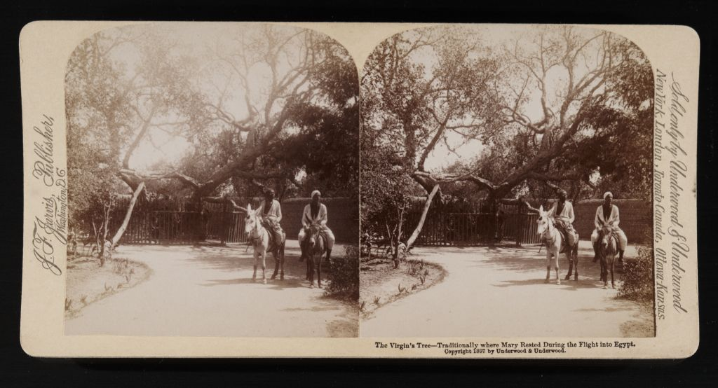 Two men on horses at the Virgin's tree